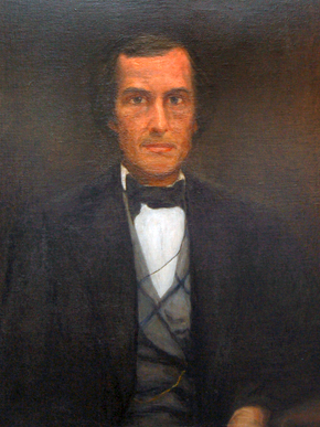 David Peter Lewis (1820–1884), Governor of Alabama (1872–1874) and member of the Confederate States House of Representatives (1861)